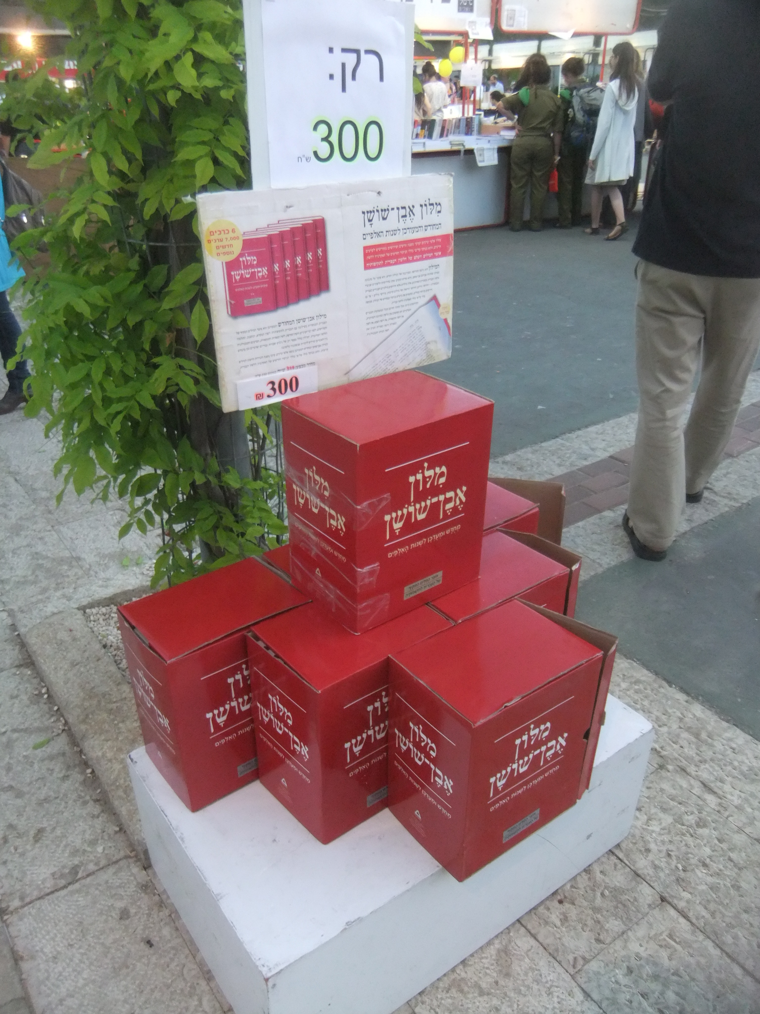 Even Shushan dictionary in Hebrew Book Week 2013 fair in Jerusalem